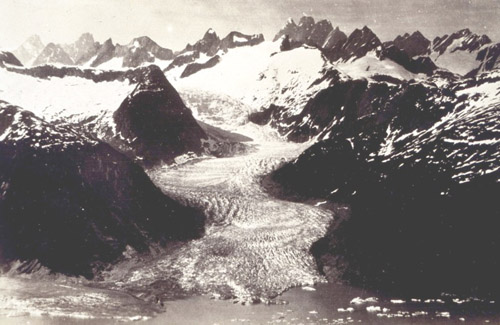 East Twin Glacier near Taku River in Southeast Alaska (erroneously titled Taku Glacier in source)